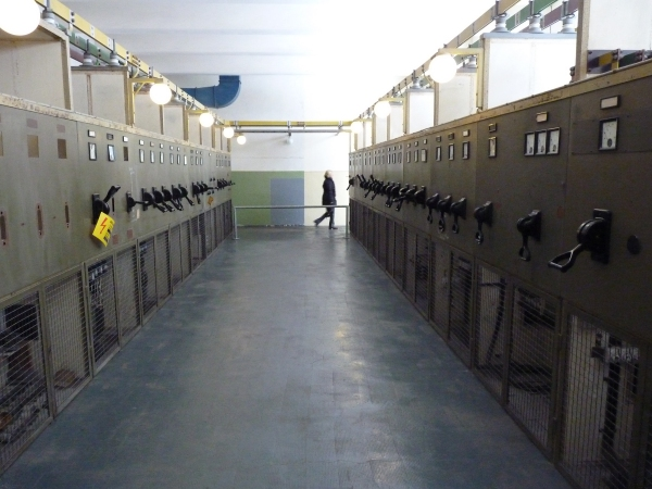 Now a part of the museum, this room in the power plant building has basically remained untouched since World War II.